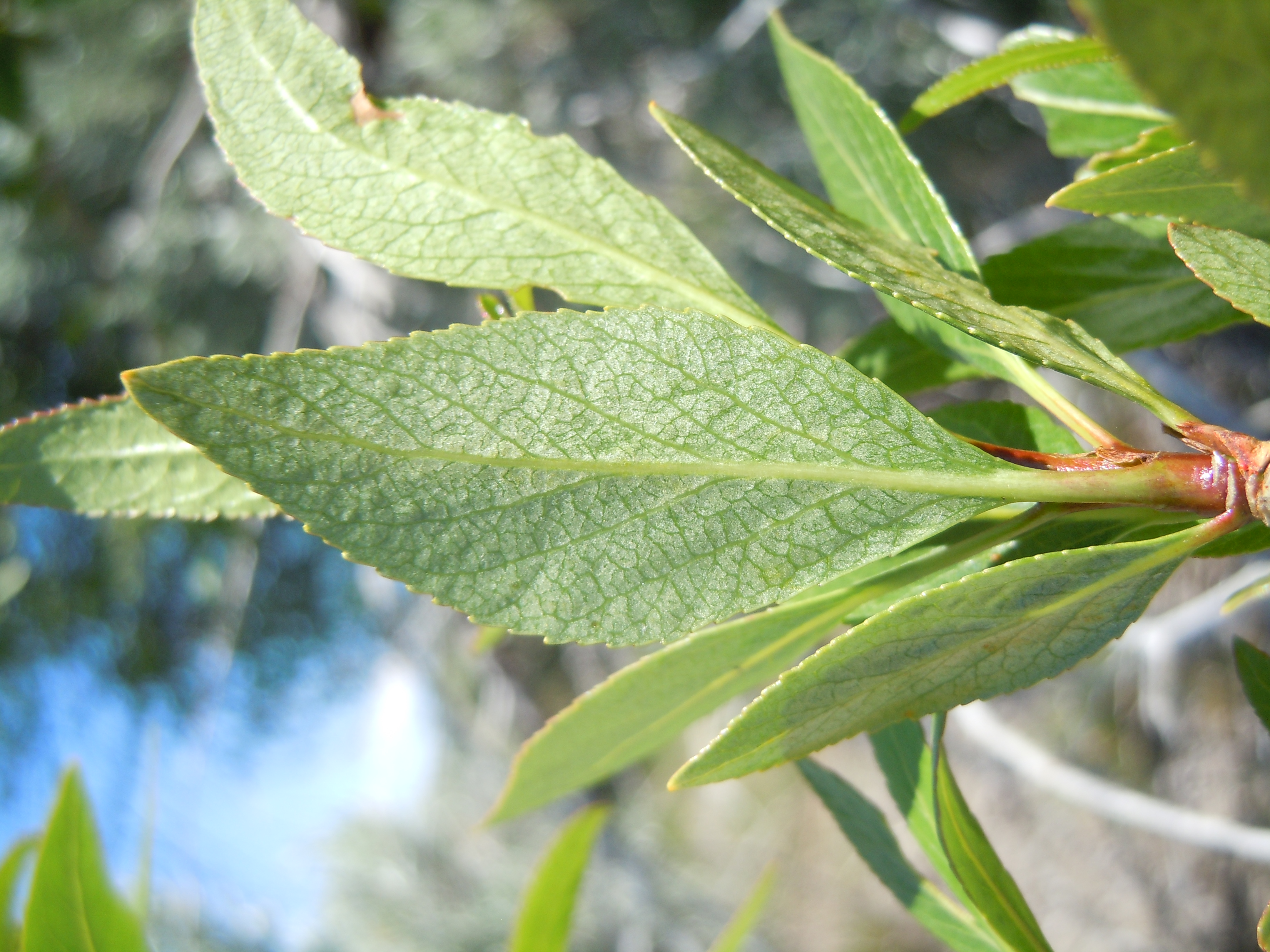 The short petiole and narrow leaf blade are characteristic.